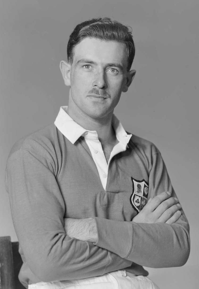 Peter Wyatt Kininmonth, member of the British Lions rugby union team